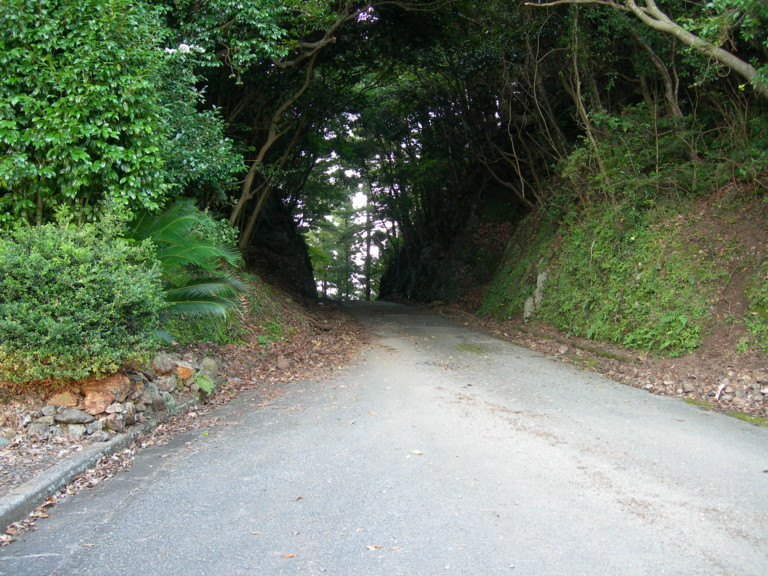 Tsurugi pass at Mie prefectural roads No.12, between Ise and Minami-ise in Japan.